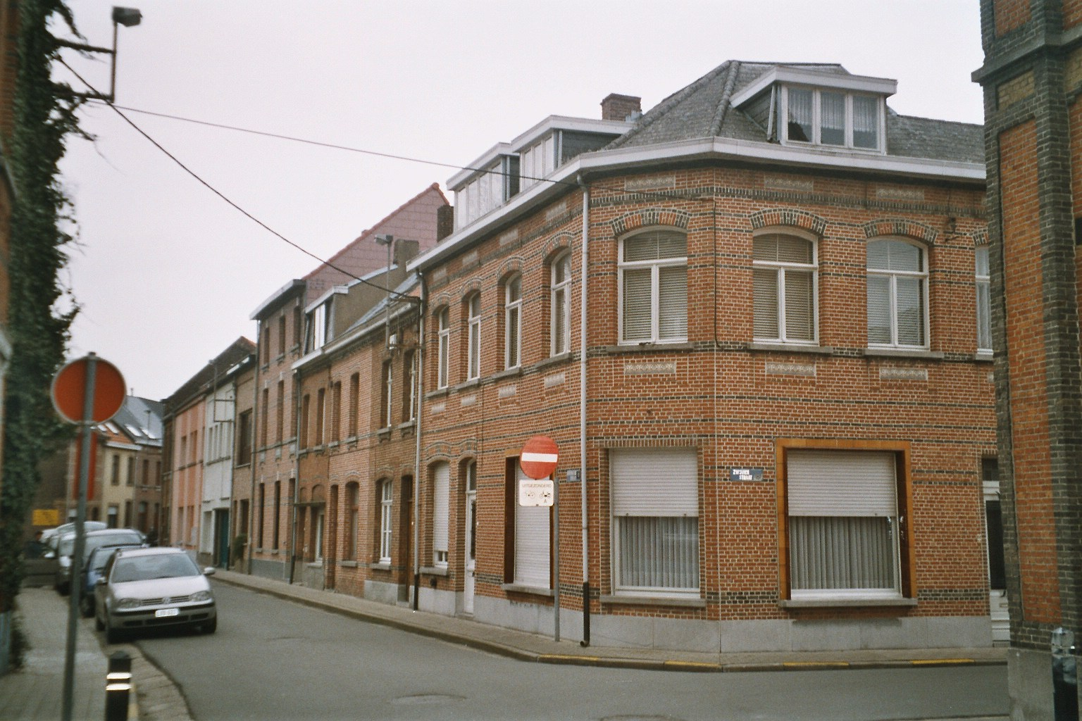 Typical street in the Belgian town Dendermonde. (Nijverheidsstraat street to be exact)